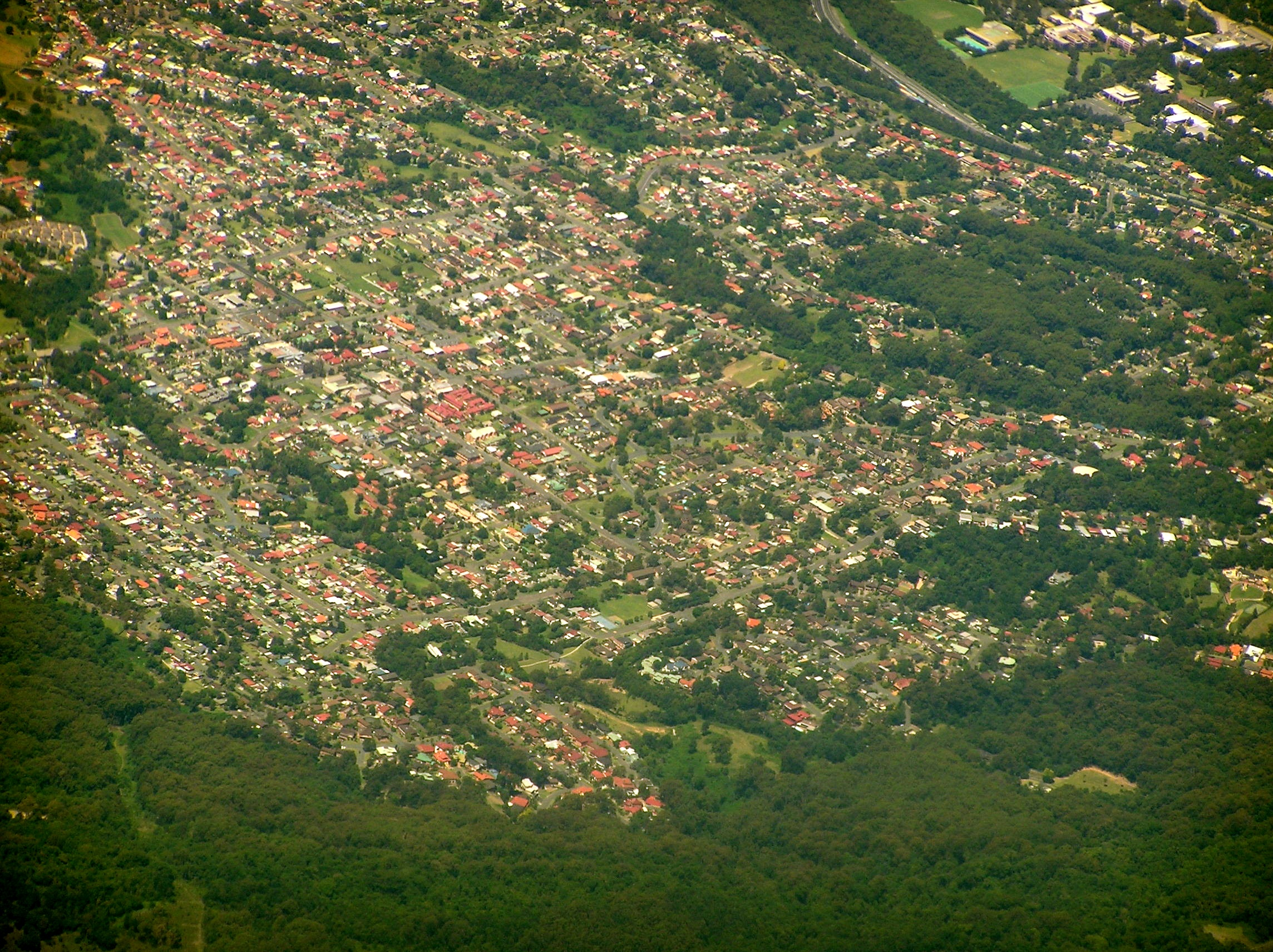 Areal photo of Balgownie